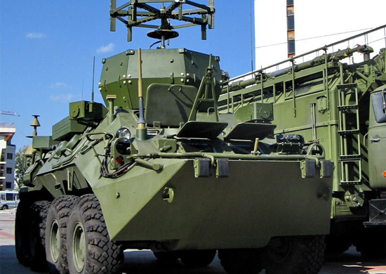 Borisoglebsk-2